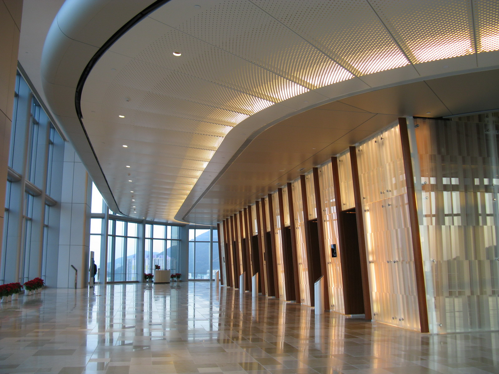 Sky Lobby at 37/F, One Island East